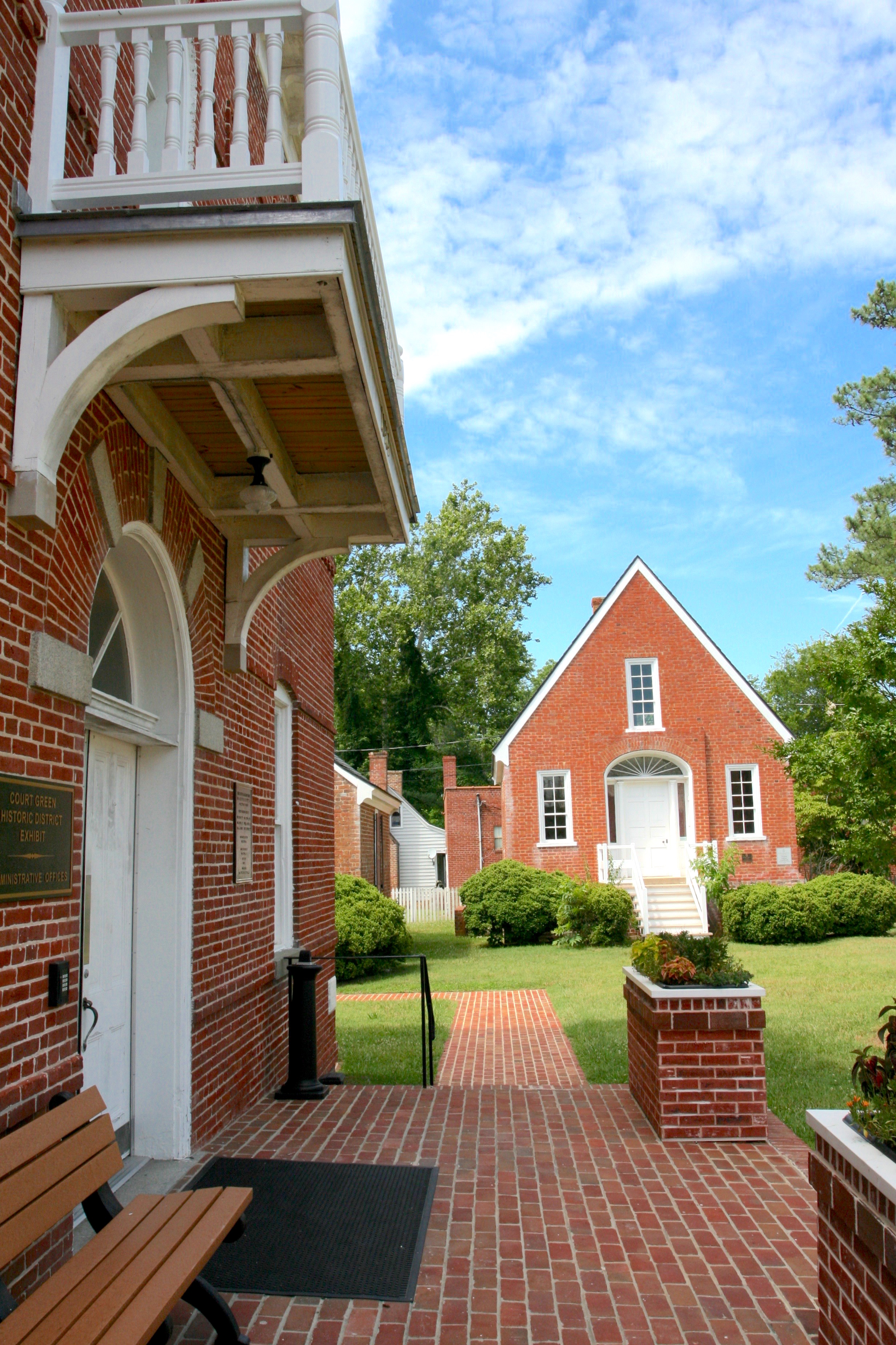 The 1899 Northampton County Courthouse (left) and earlier 1732 Courthouse on the historic court green in Eastville, Virginia.